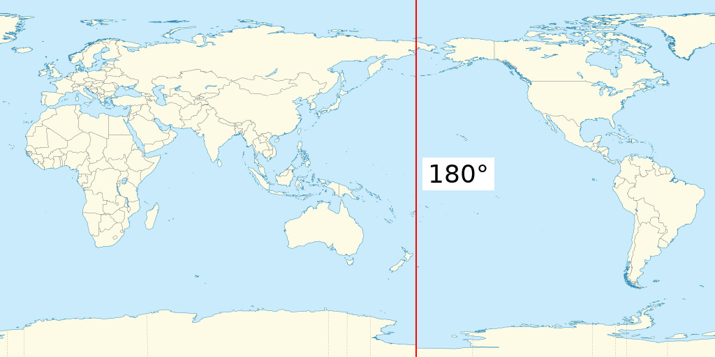 Earth map centered on the Pacific ocean, with the 180th meridian highlighted.